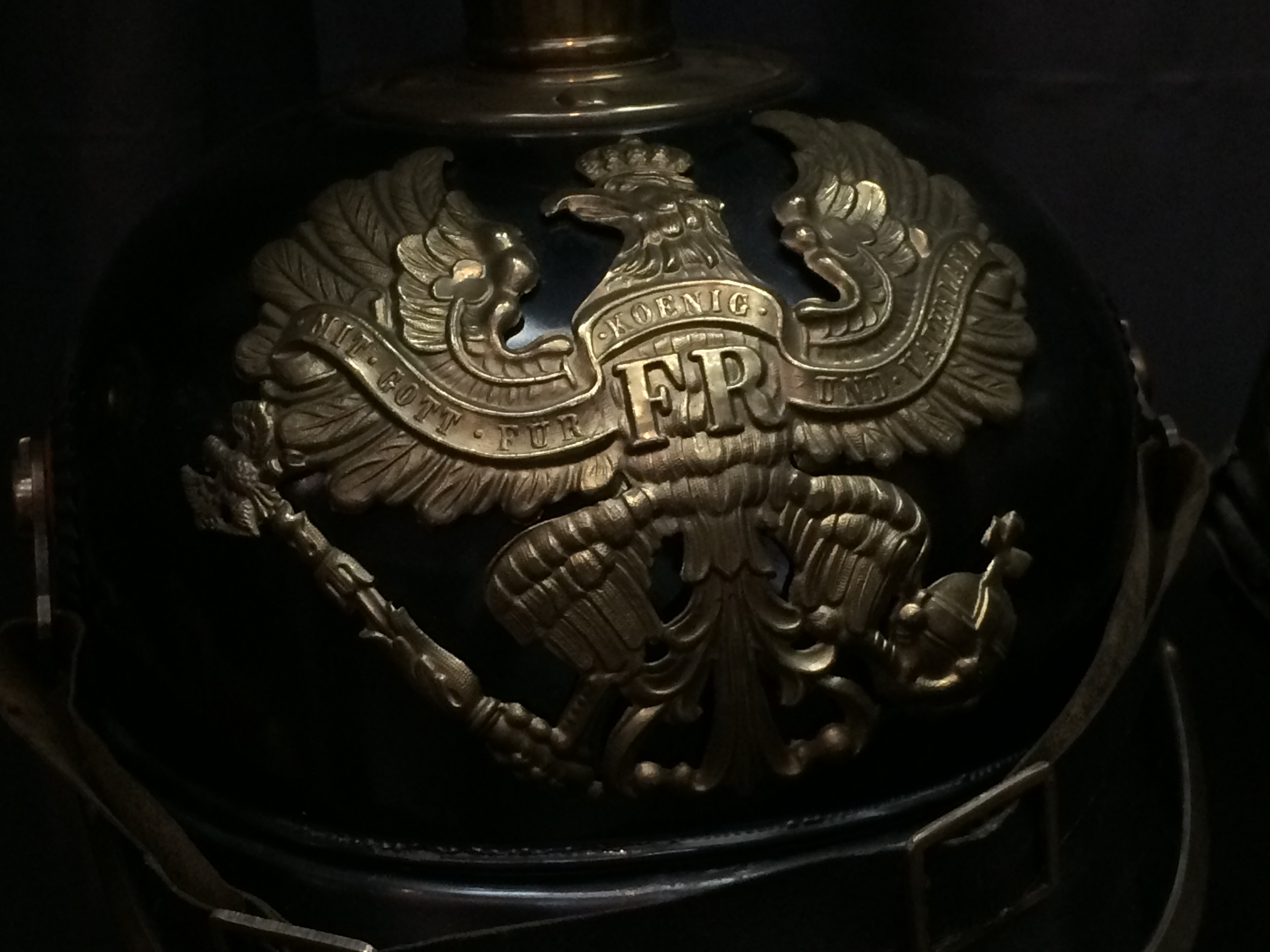 Prussian helmet of First World War, in the Royal Military Museum, Brussels. The legend says "Mit Gott für König und Vaterland"; translation: "With God for King and Fatherland".